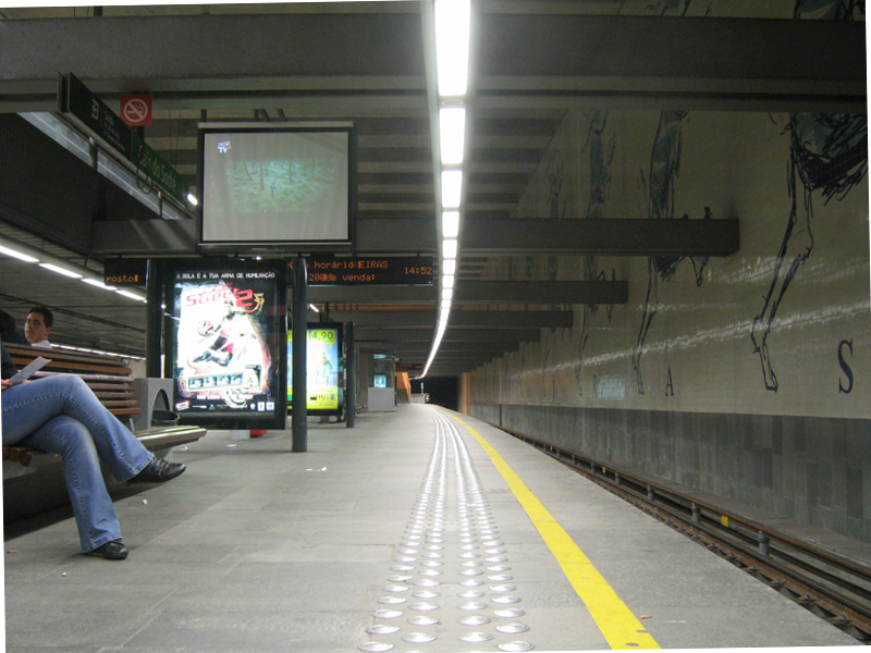 The Lisbon metro station "Cais do Sodre"